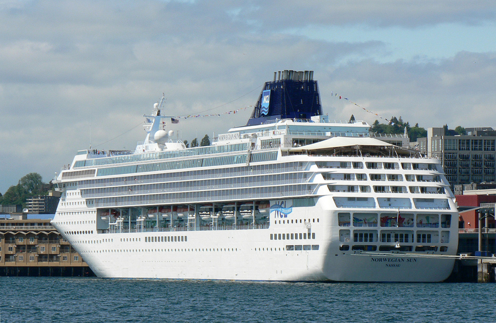 Norwegian Sun in Seattle. Big Ol' Cruise Ship - looks like a rough time ;o)